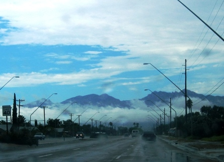 Monsoon clouds blanket the Santa Catalina Mountains, as viewed from Wilmot Road, Tucson.